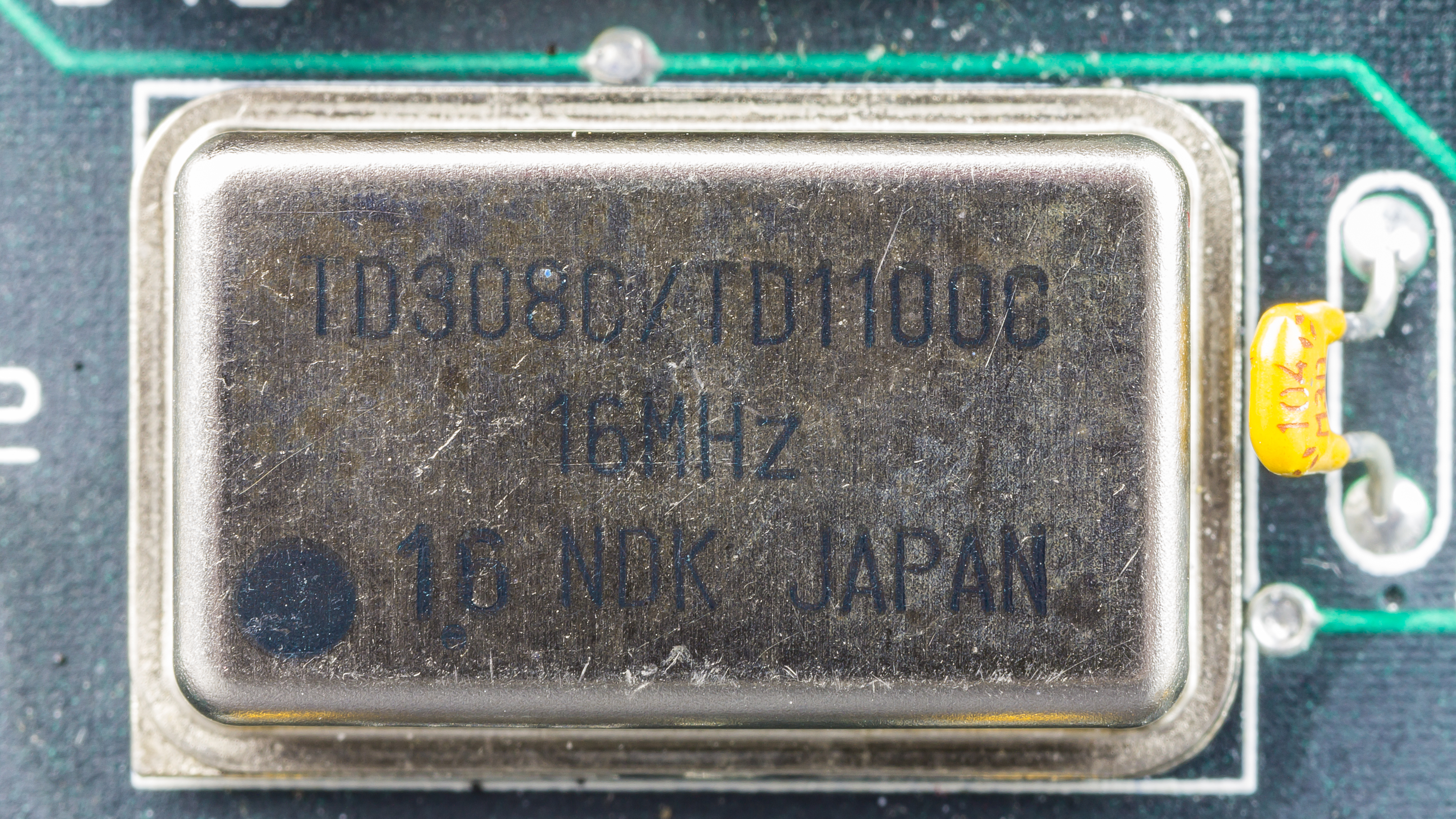 Basic Measuring Instruments - Math Processor 83002190 - NDK TD308C/TD1100C - Crystal Clock Oscillator